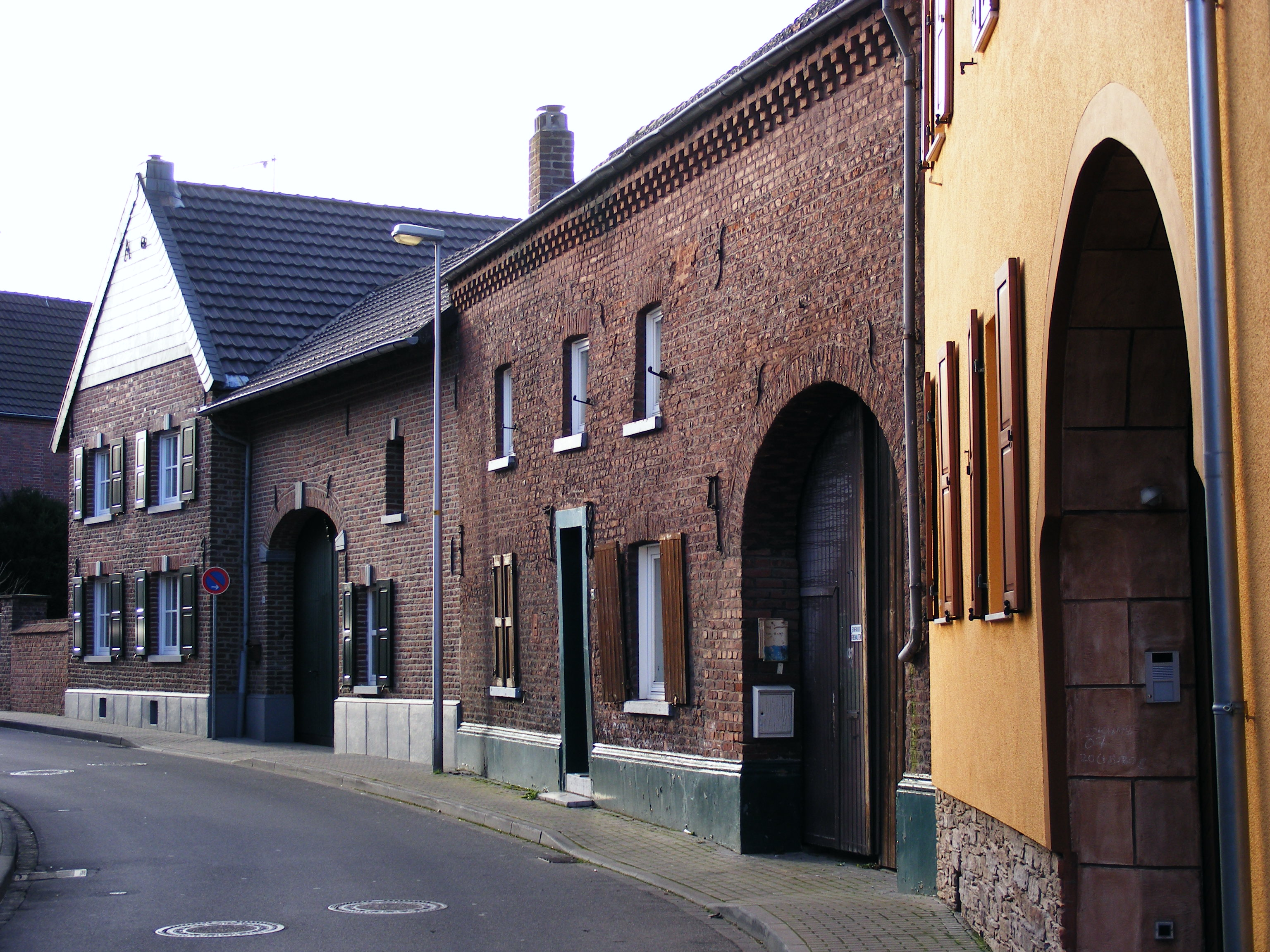 Old farmhouses at the Jägerstr. Dremmen